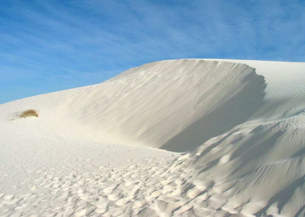 White Sands, New Mexico, USAWhite Sands